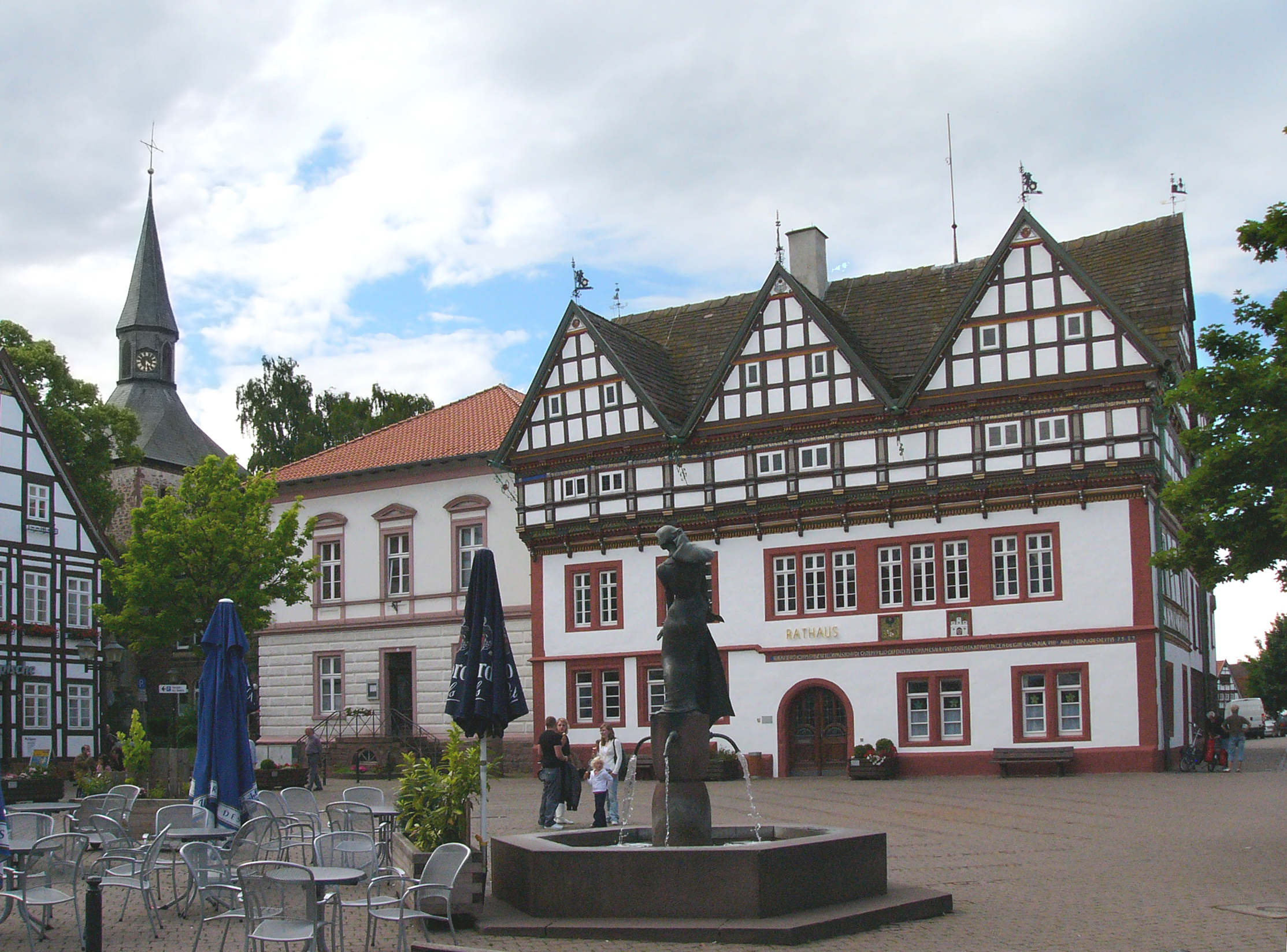 Town hall and market place in Blomberg, Germany